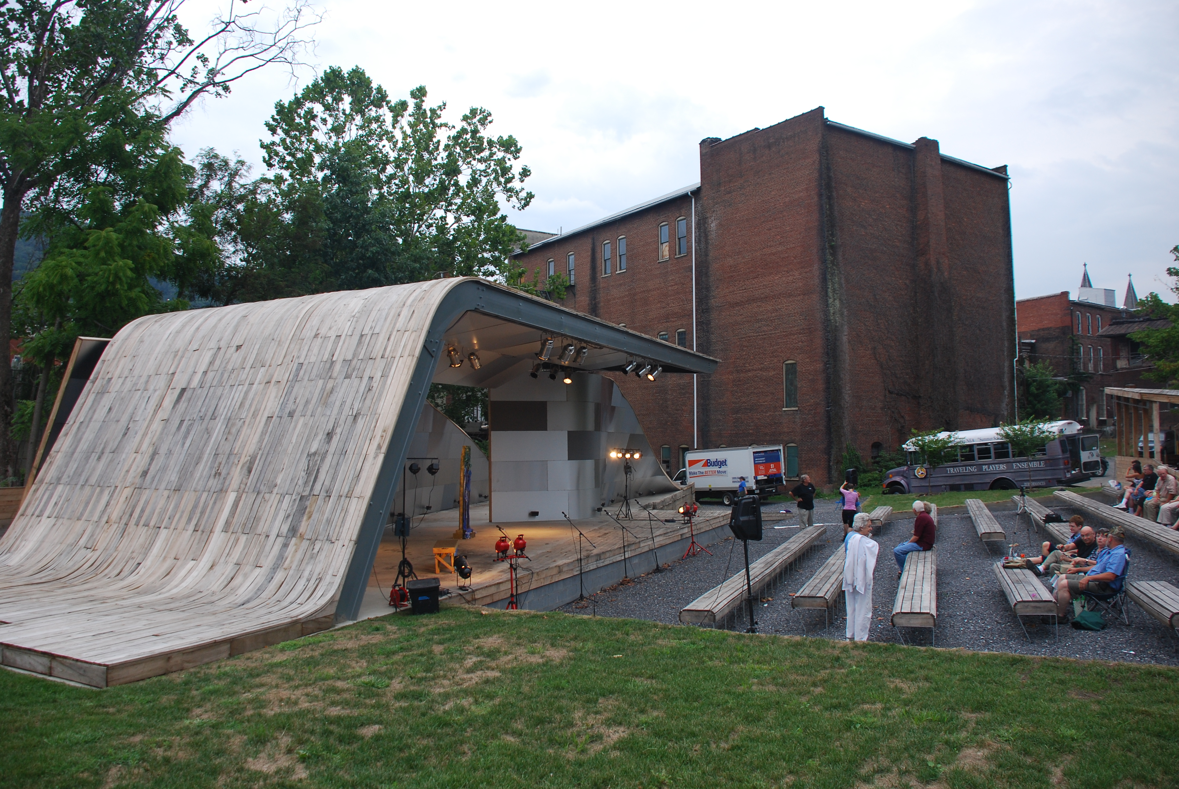 Clifton Forge, Virginia - Masonic Amphitheatre and the back of Masonic Theatre behind it. The Masonic Amphitheatre was designed and built by 16 third year undergraduate Architecture students from Virginia Tech's design/buildLAB.